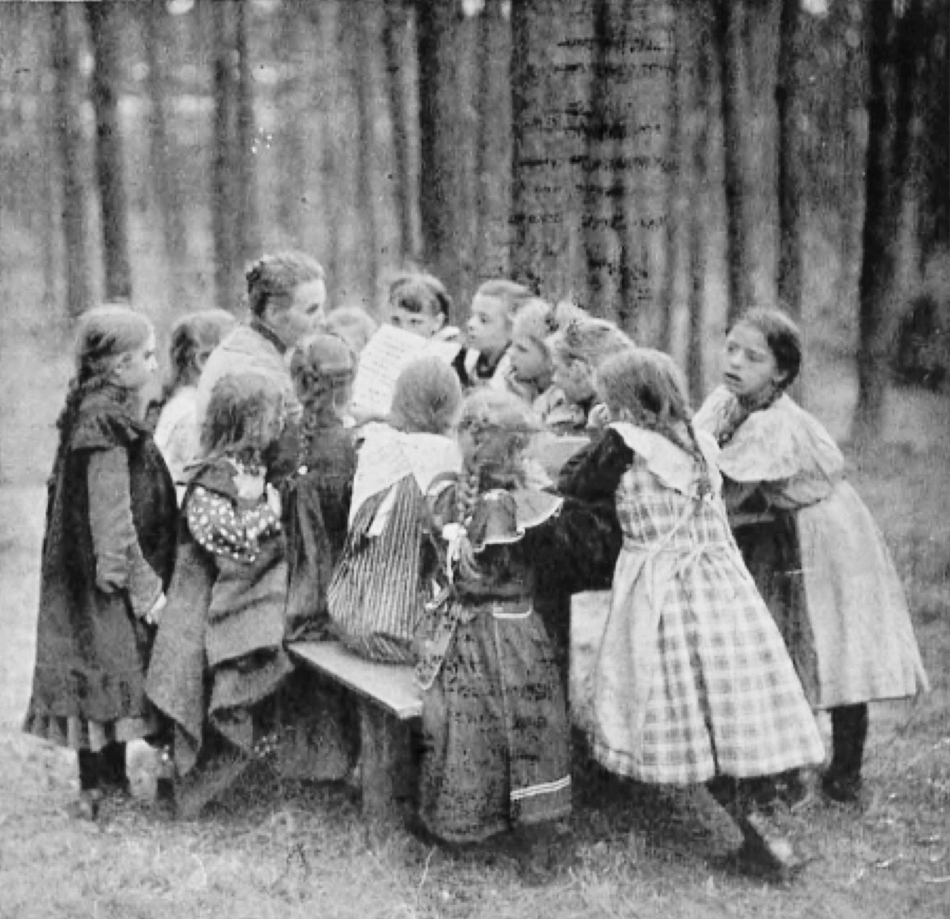 The picture of 1904 shows girls with their teacher of Waldschule für kränkliche Kinder (translated: Forest school for sickly children). The very first open-air school worldwide was meant to prevent children from tuberculosis. It was located in the borrough of Westend, in the city of Charlottenburg, near Berlin, Germany, in the outskirts of Grunewald forest, since 1920 part of Germany's capital.